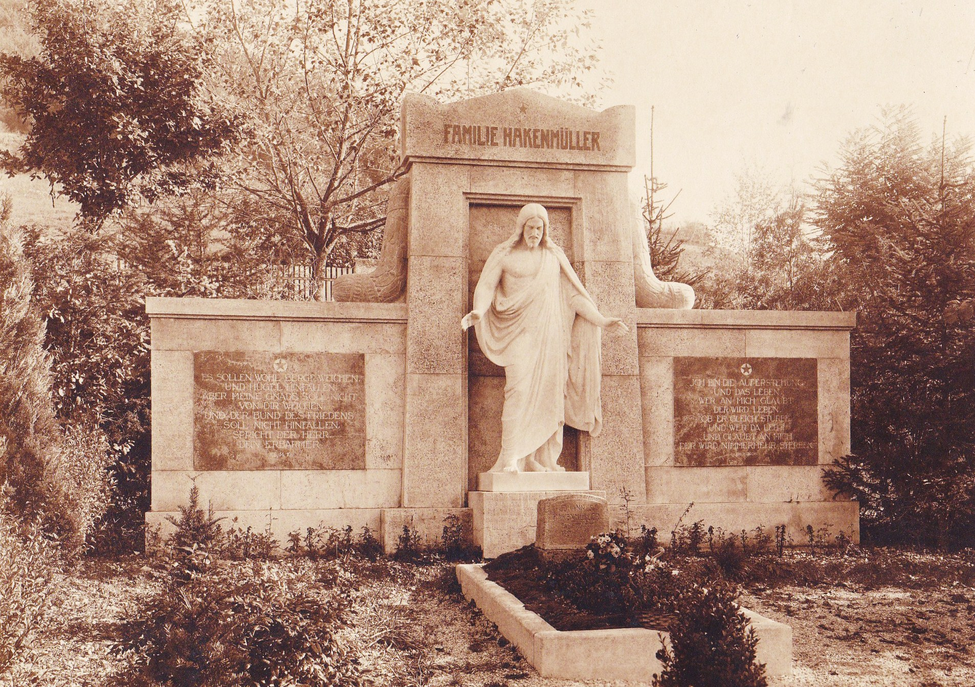 tombstone of the family Hakenmüller on the Markenhalde cemetery at Albstadt-Tailfingen, Baden-Württemberg, Germany; 1923 by sculptor Carl Fanghaenel (Stuttgart) with a copy of the well-known Christus-figure of the Danish sculptor Bertel Thorvaldsen